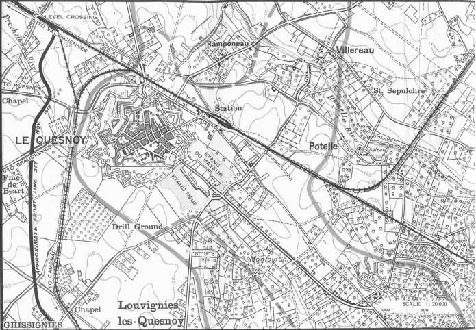 Plan of attack, Le Quesnoy 1918. Published in The New Zealanders in France by Col. Hugh Stewart, 1921.